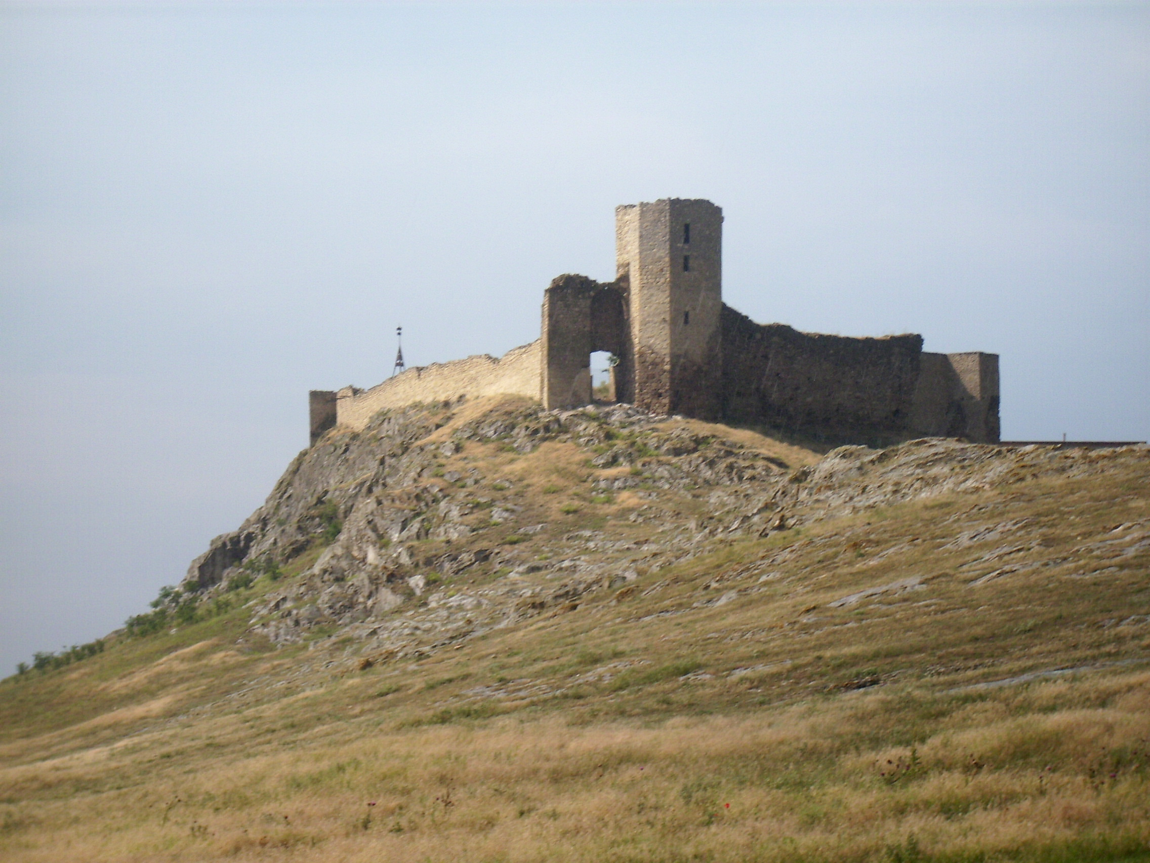 Enisala fortress